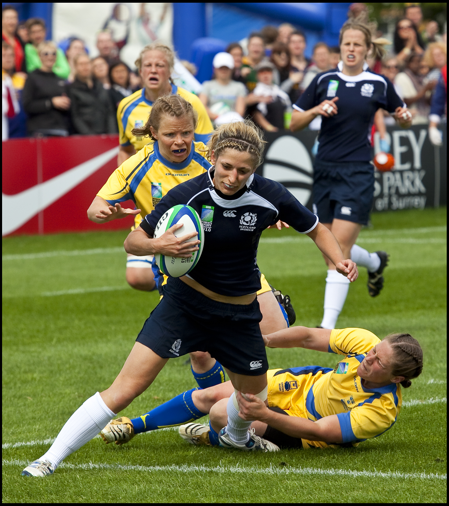 Katy Green..another from the sequence of her try for Scotland against Sweden on Saturday